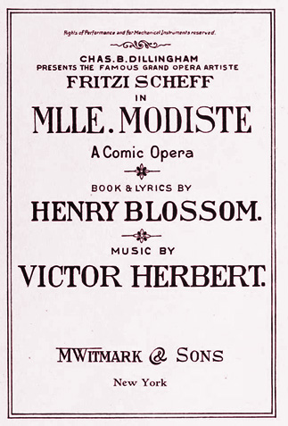 Title page of vocal score of the operetta Mlle. Modiste, Publisher: M. Witmark & Sons, New York, 1905.